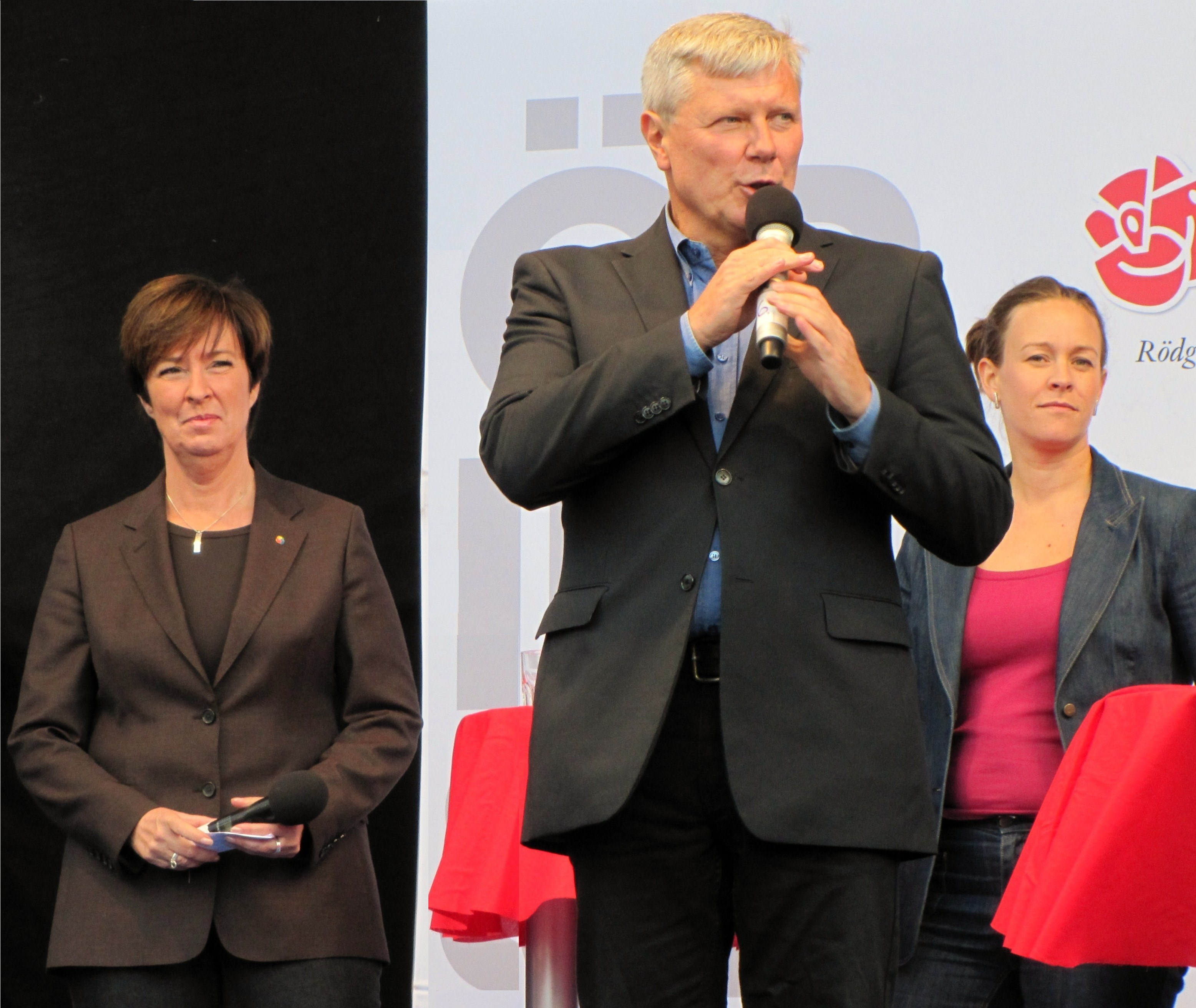 The swedish Red-Greens at an election rally in Göteborg the day before the election.